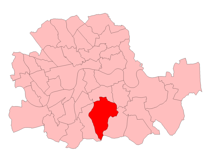 A map of Dulwich constituency within the London County Council area, as it existed from 1950 to 1974.